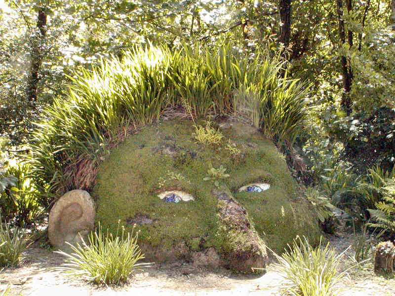 Heligan: Giant's Head